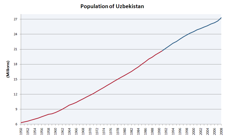 Population of Uzbekistan, 1950 - 1 January 2008. Sources: UNDP - Uzbekistan in figures, Demoscope